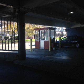 The location of where a public safety officer sits in the Science Hall Parking Ramp